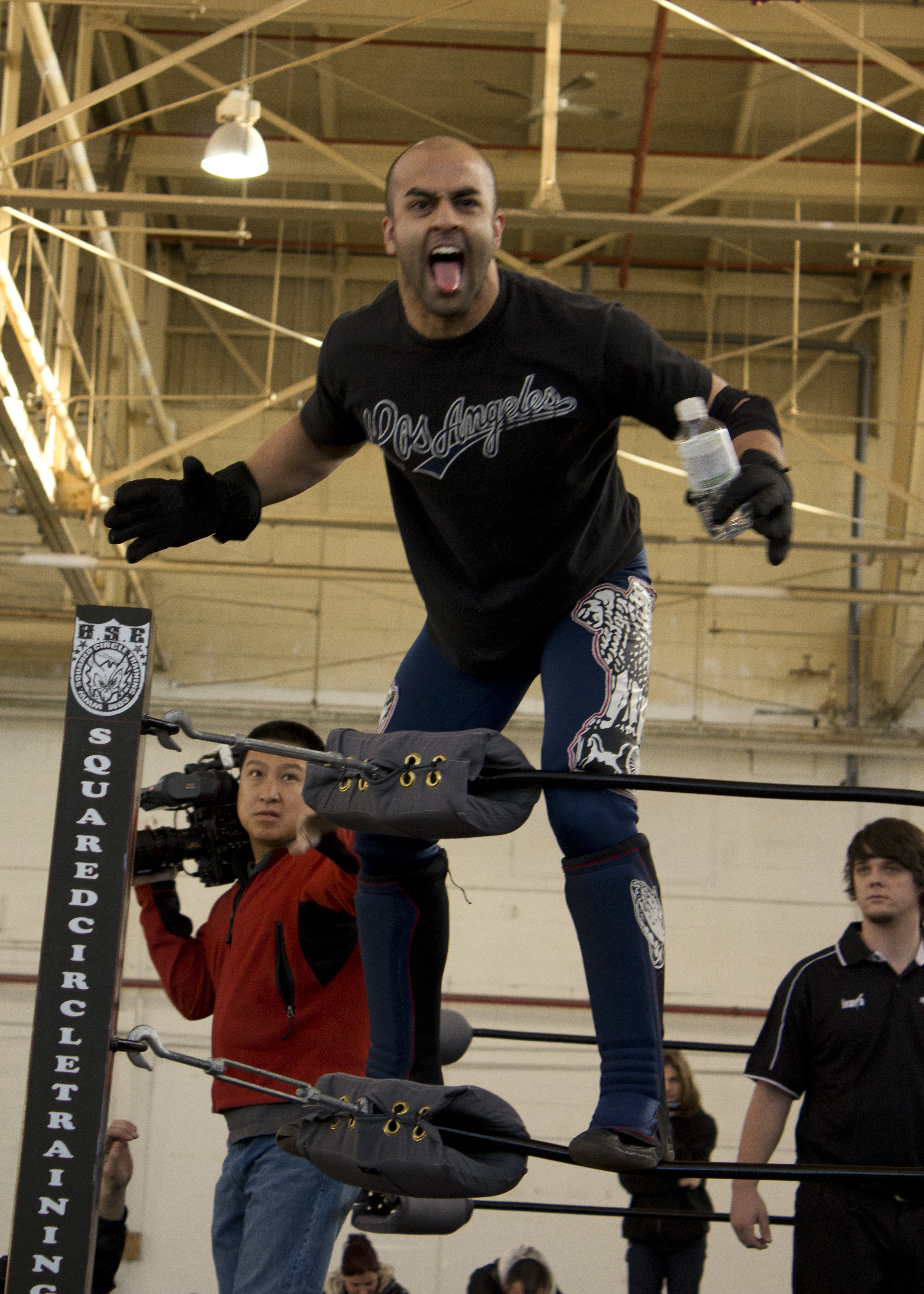 Sonjay Dutt at Maximum Pro Wrestling's "Havoc at the Hanger' event